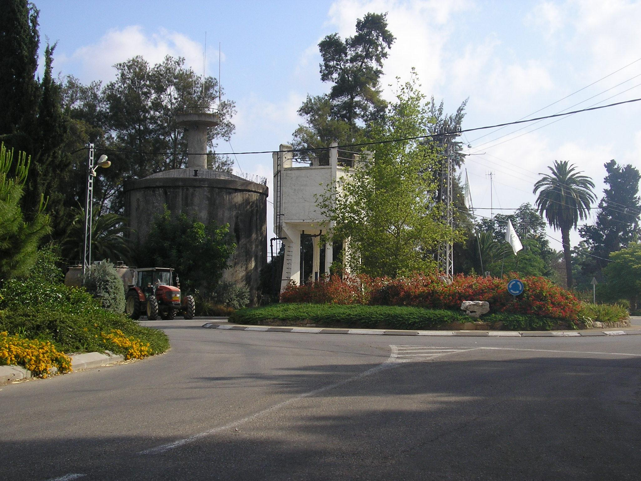 A square in Nahalal, Israel. The whita water tower was erected in 1924.כיכר בנהלל, ישראל. מגדל המים הלבן הוקם בשנת 1924